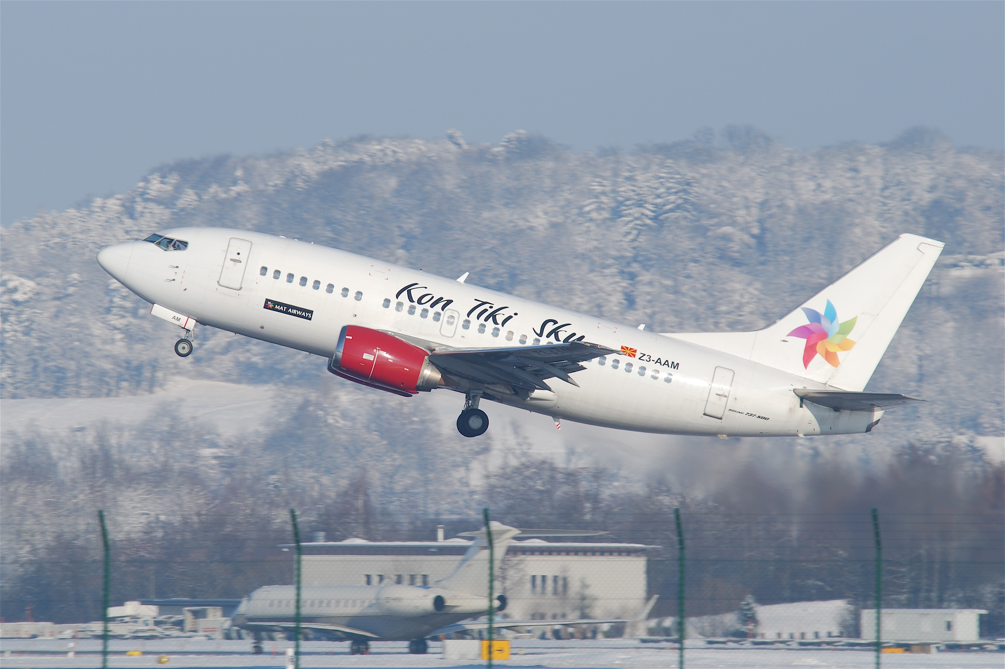 MAT Airways Boeing 737-529; Z3-AAM@ZRH;26.12.2010/591ch